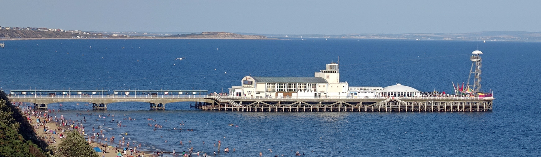 Bournemouth Pier, Bournemouth.